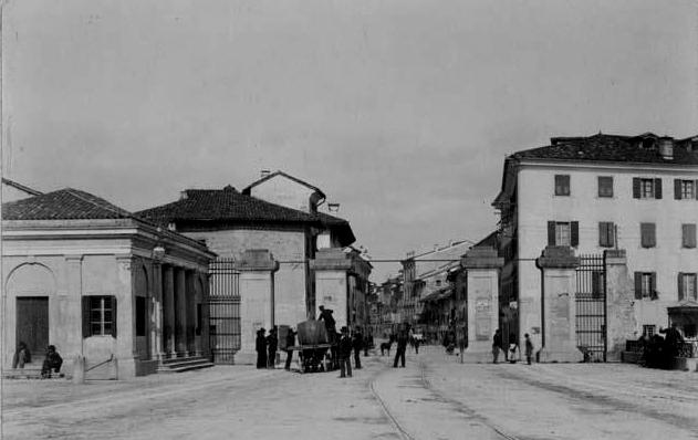 Porta Venezia 1900